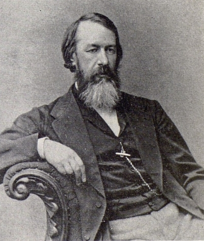 Portrait of Vladimir Stasov.